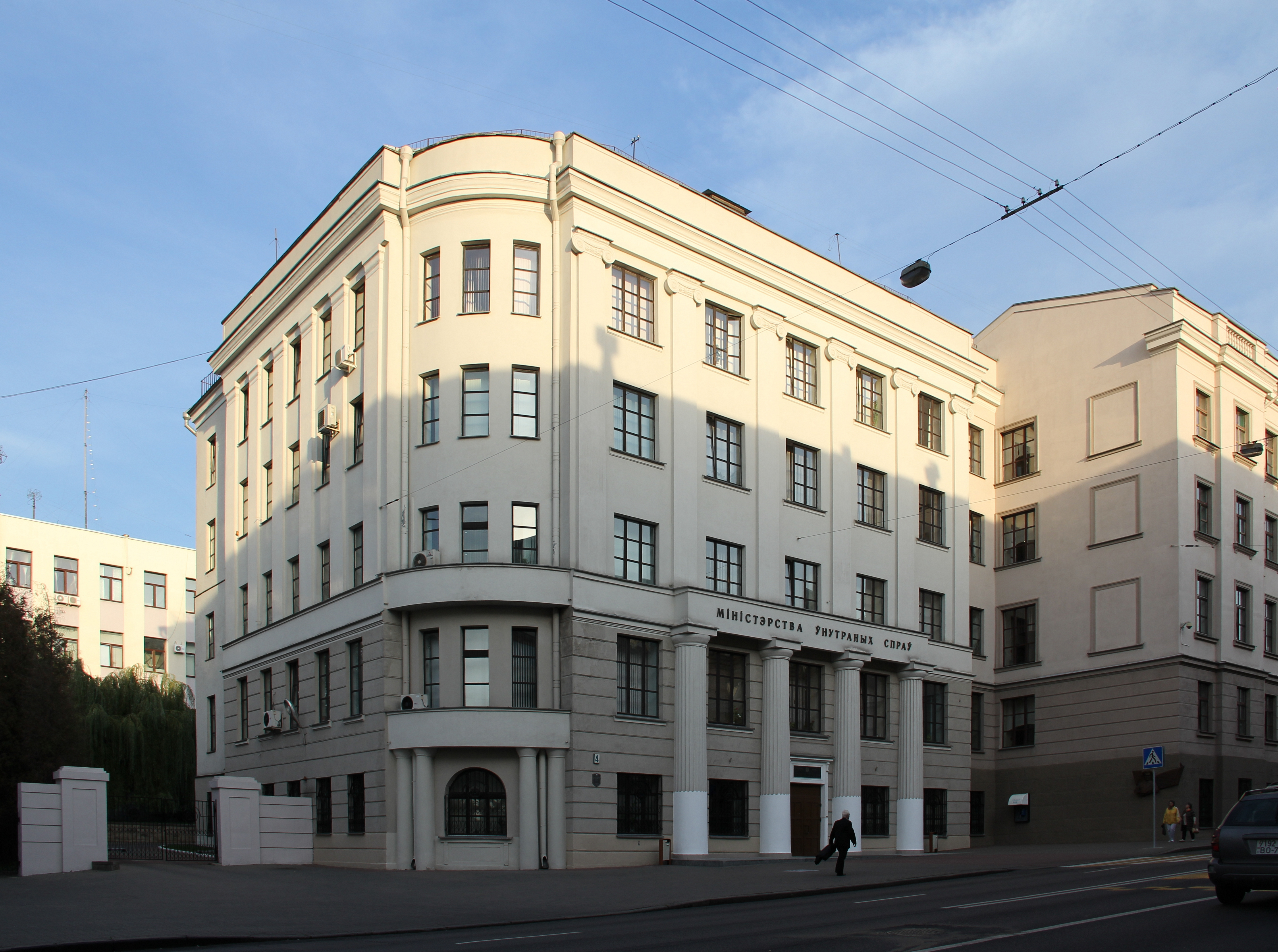 Беларуская (тарашкевіца): Будынак. г. Менск This is a photo of Belarusian heritage monument. Reference number: 713Г000030 ( WLM)